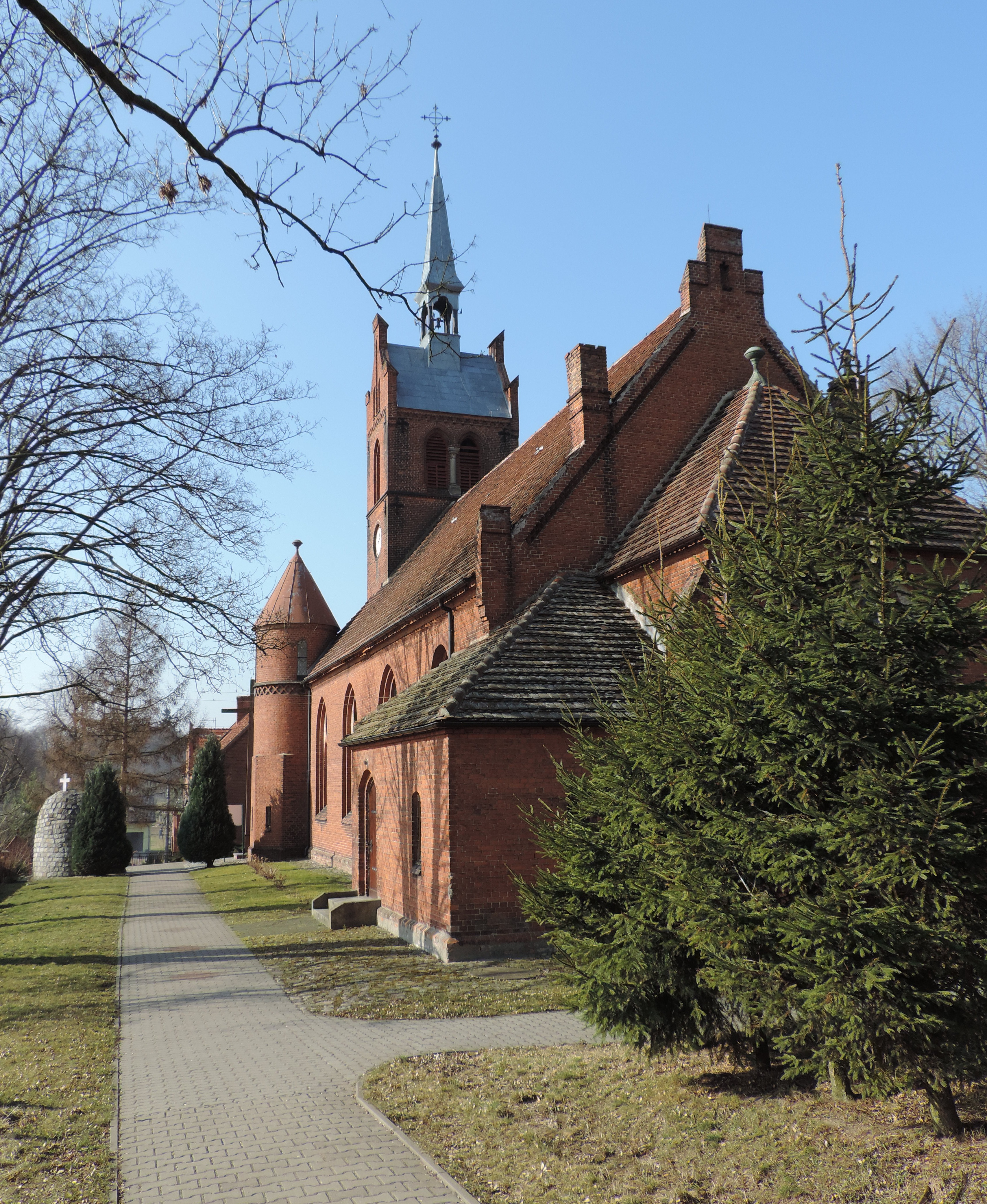 Church of St. Joseph, the Betrothed of the Blessed Virgin Mary in Trzcinna, Nowogrodek Pomorski Commune, NW Poland